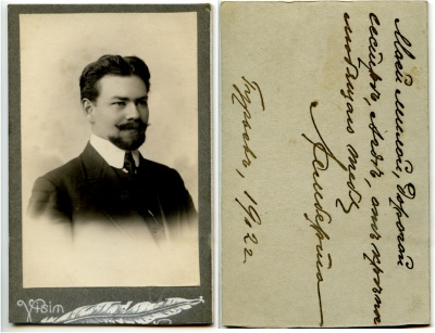 Lambert Stenroos (Branobel, Ltd)